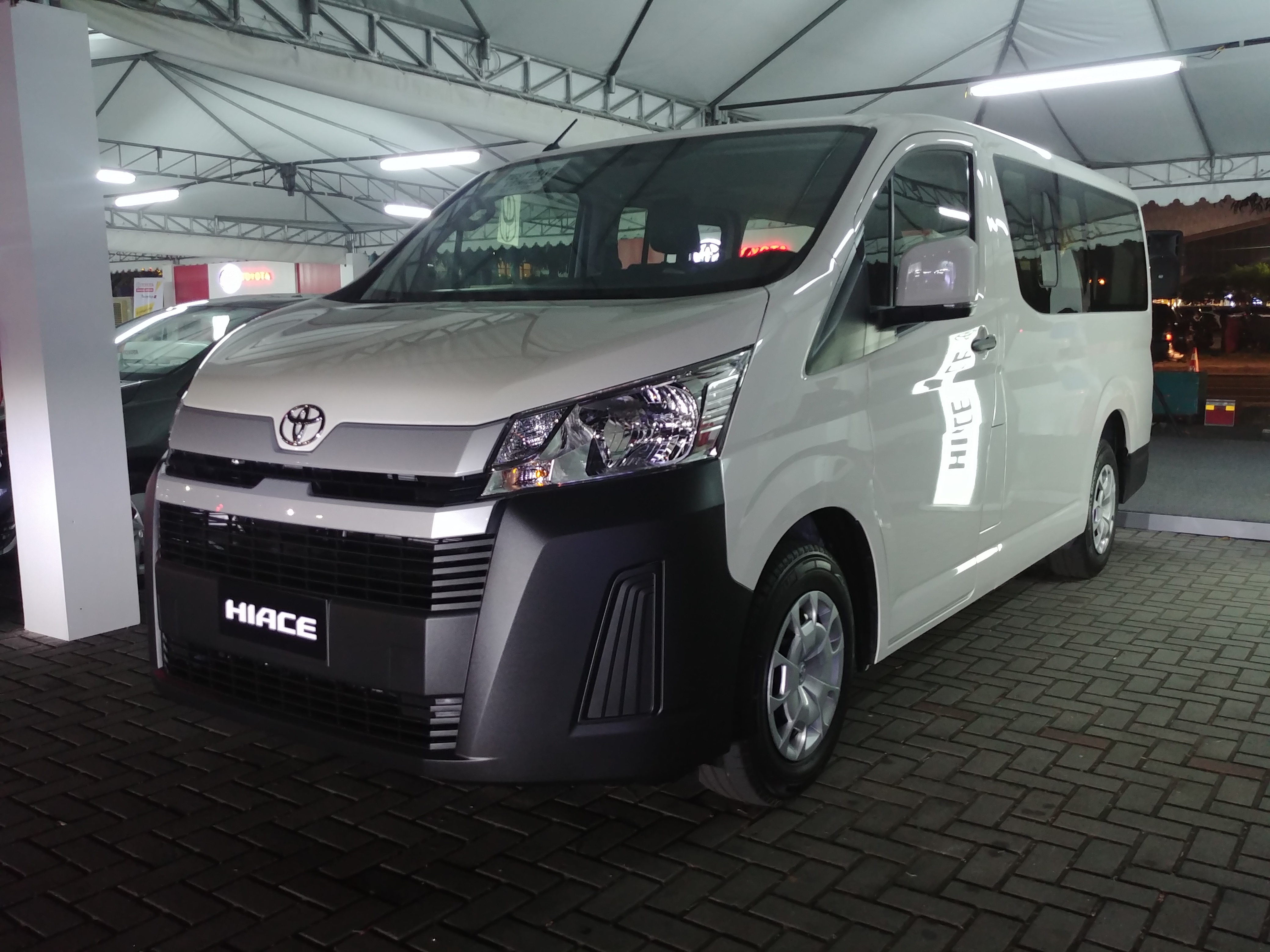 The 2019 Toyota HiAce Commuter on display at the 2019 Auto Focus Summer Test Drive Festival held at the SM Mall of Asia Concert Grounds, Pasay City, Philippines.